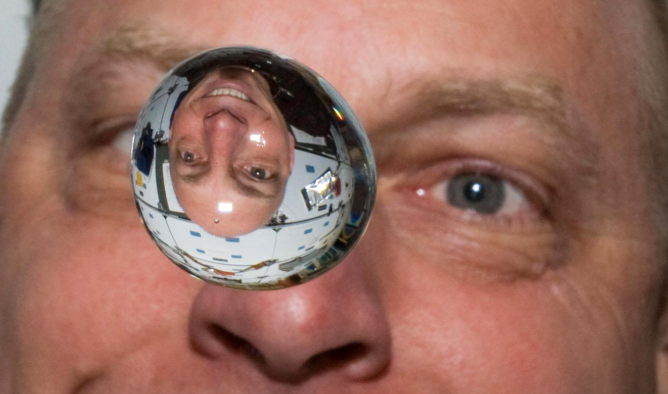 Astronaut Clayton Anderson watches as a water bubble floats in the middeck of space shuttle Discovery during the STS-131 mission. Note that his image in the bubble is upside down because the bubble refracted the light.